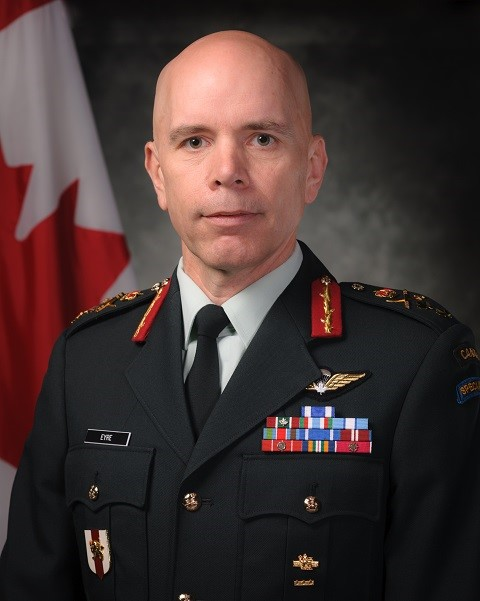 LIEUTENANT-GENERAL WAYNE D. EYRE, the deputy commander at the United Nations Command in South Korea